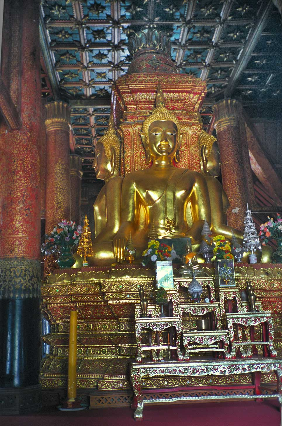 Main Buddha-statue in ubosot of Wat Phumin, city of Nan, Nan province, Thailand